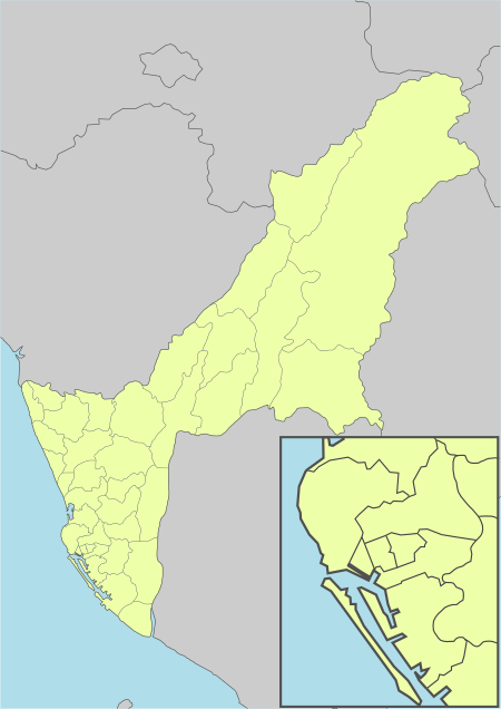 Kaohsiung_labelled_map